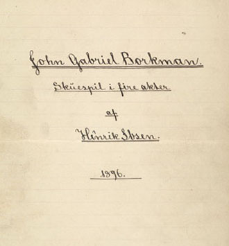 "John Gabriel Borkman" manuscript title page by H. Ibsen